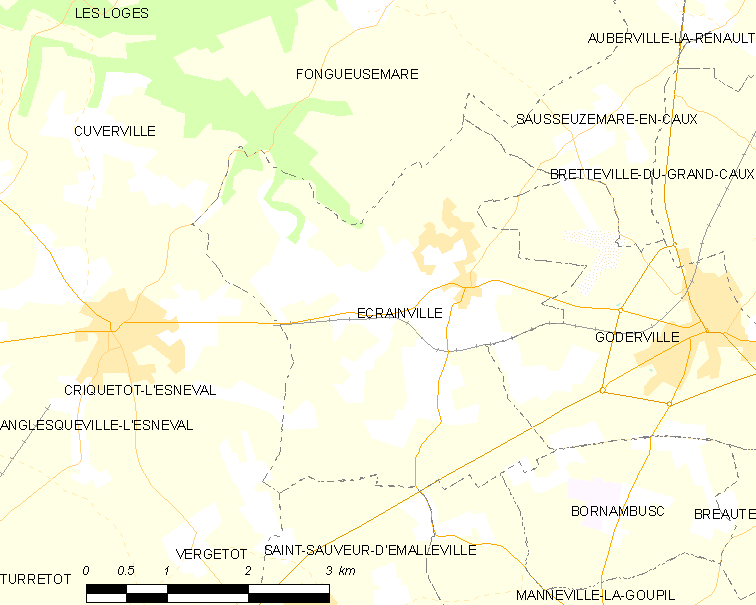 Map of French municipality Écrainville